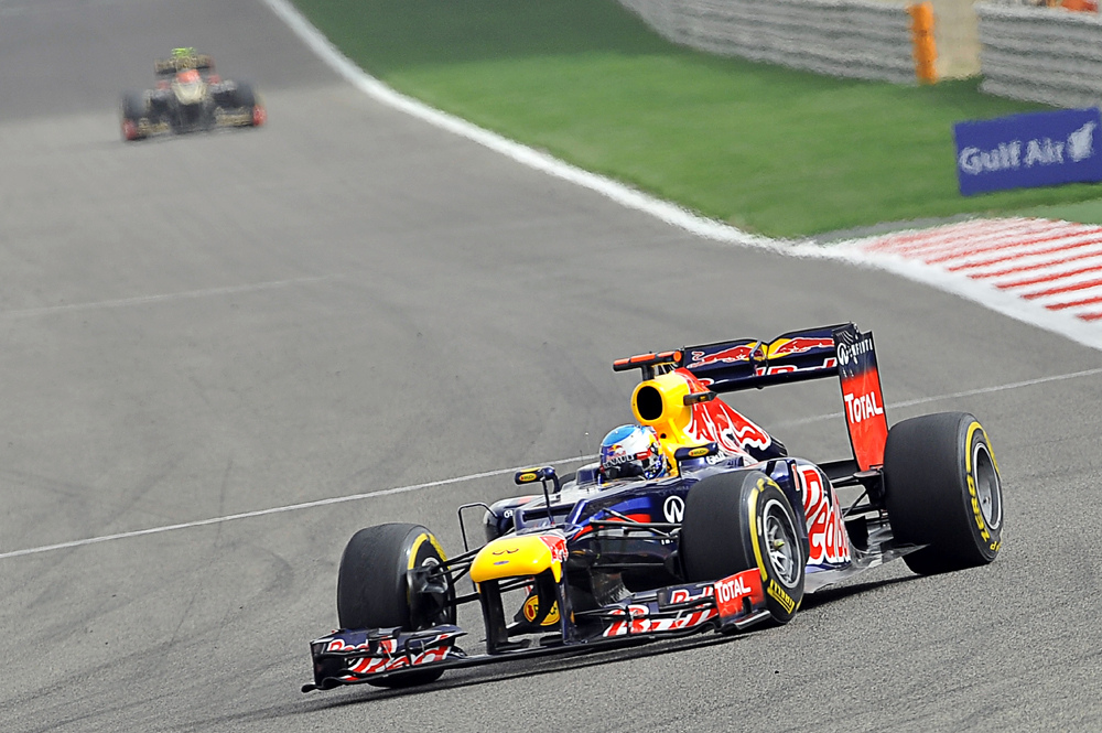 Sebastian Vettel at the 2012 Bahrain Grand Prix.